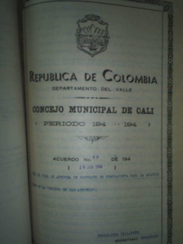 A photo of the historical document of the bougth of the Colina de San Antonio by the Municipality.